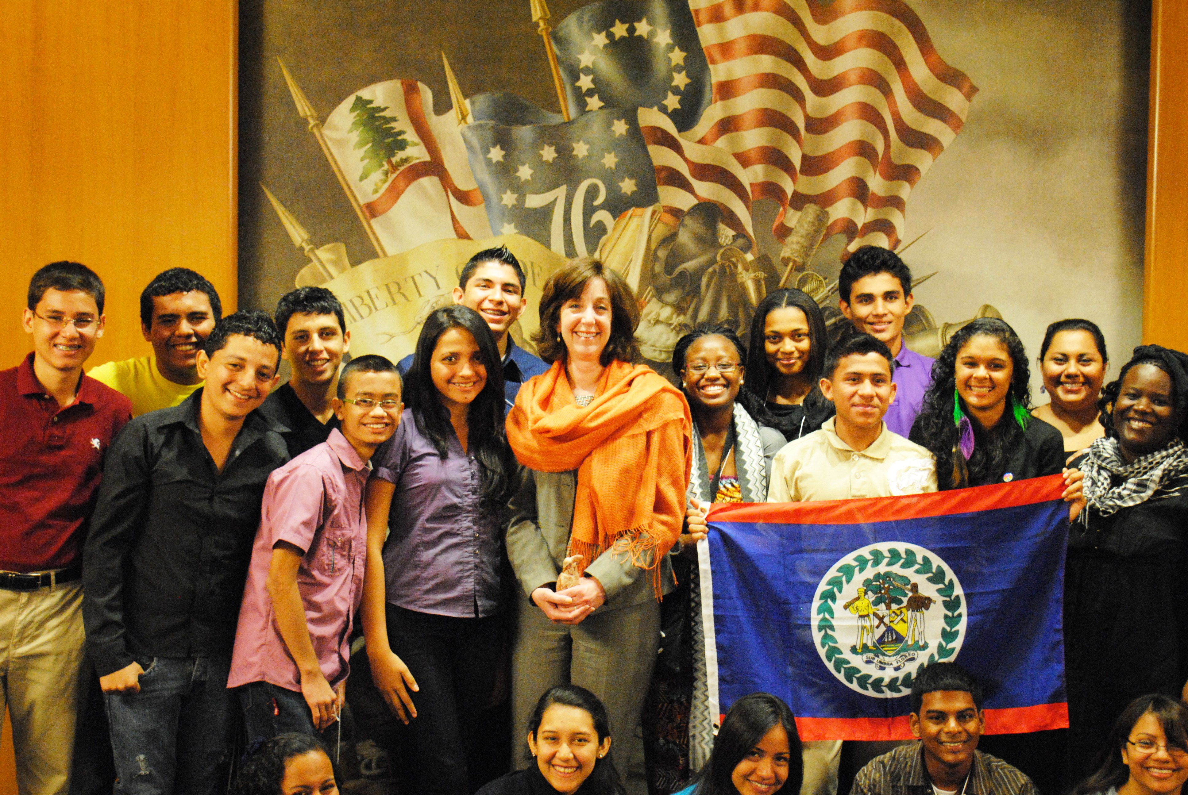 Assistant Secretary of State for Western Hemisphere Affairs Roberta Jacobson meets with the Central American Youth Ambassadors at the U.S. Department of State in Washington, D.C., on March 11, 2013. [State Department photo/ Public Domain]